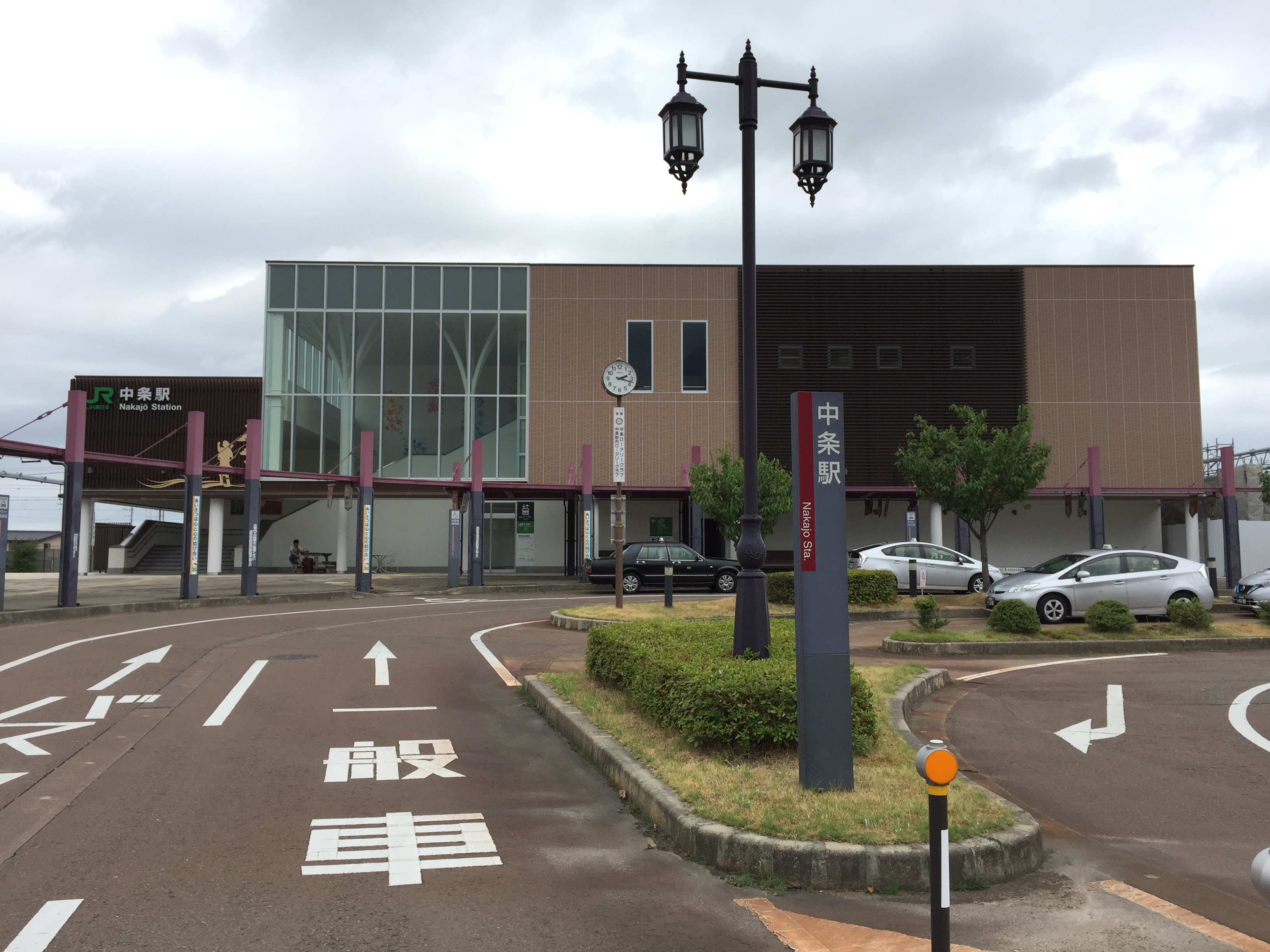 East Exit, Nakajo Station, East Japan Railway Company. Took photo in August 2018.